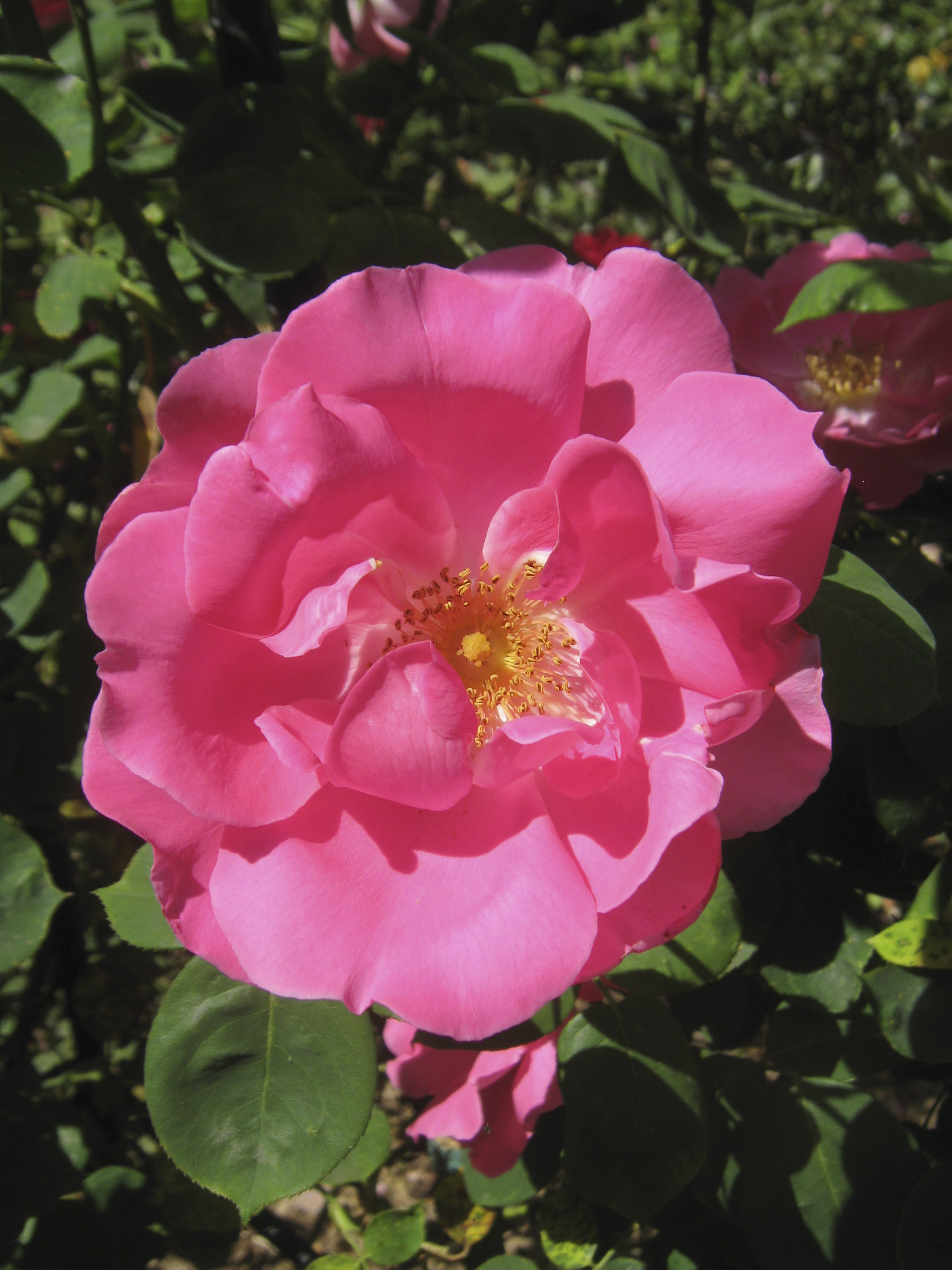 Rose 'Kitty Kininmonth', Hybrid Gigantea climber by Alister Clark 1922; photographed in the Alister Clark Memorial Rose Garden, Bulla, VIctoria